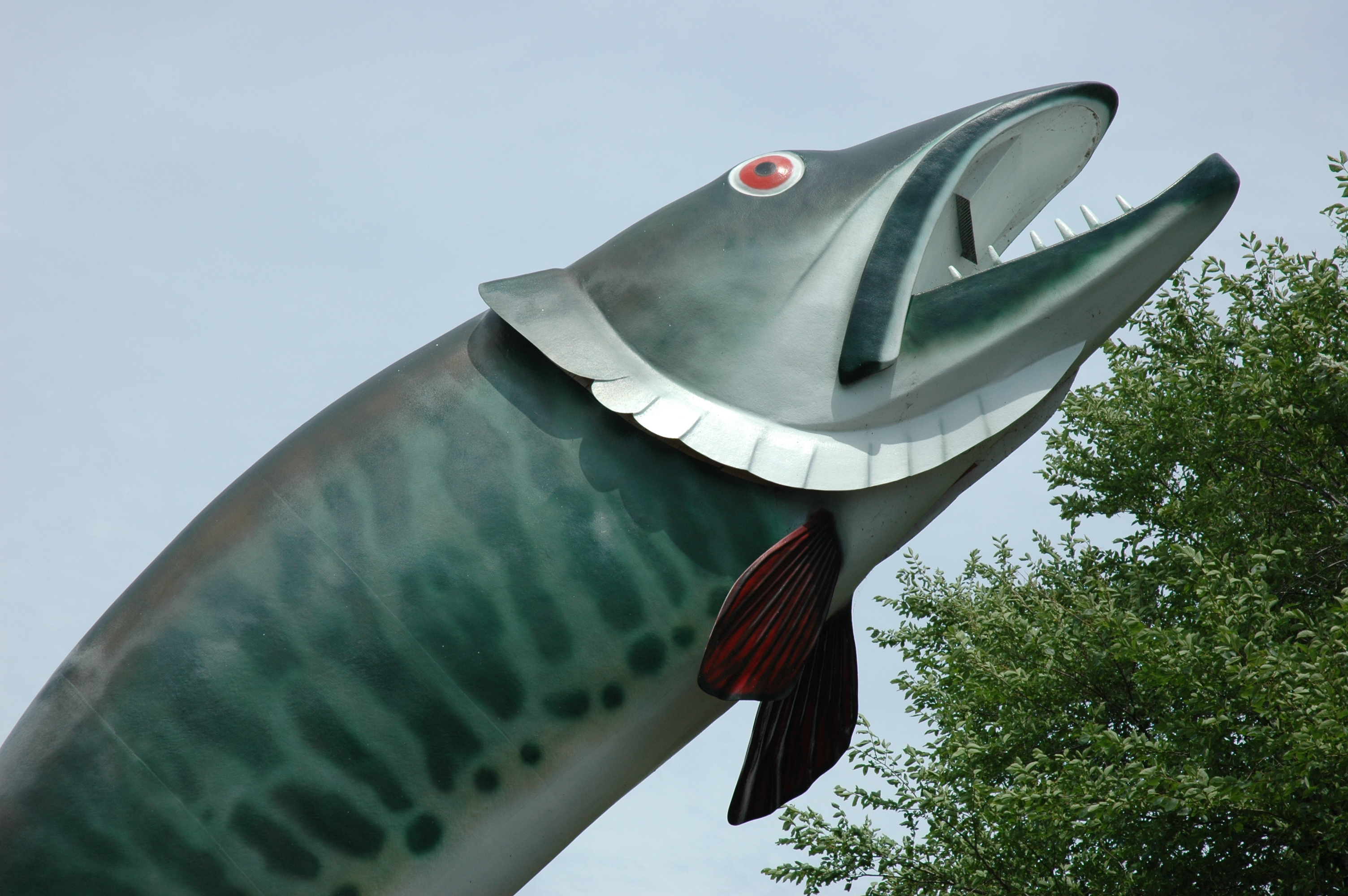 „Husky the Muskie“, mascot of Kenora, Ontario.